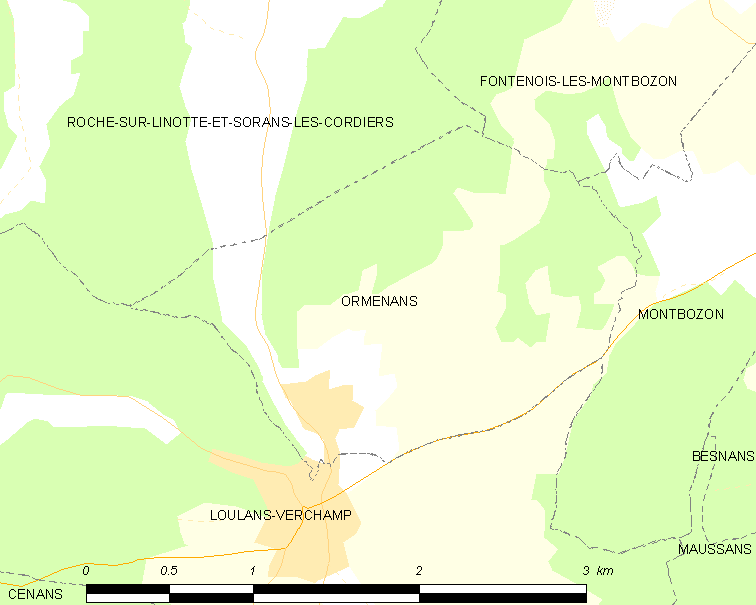 Map of French municipality